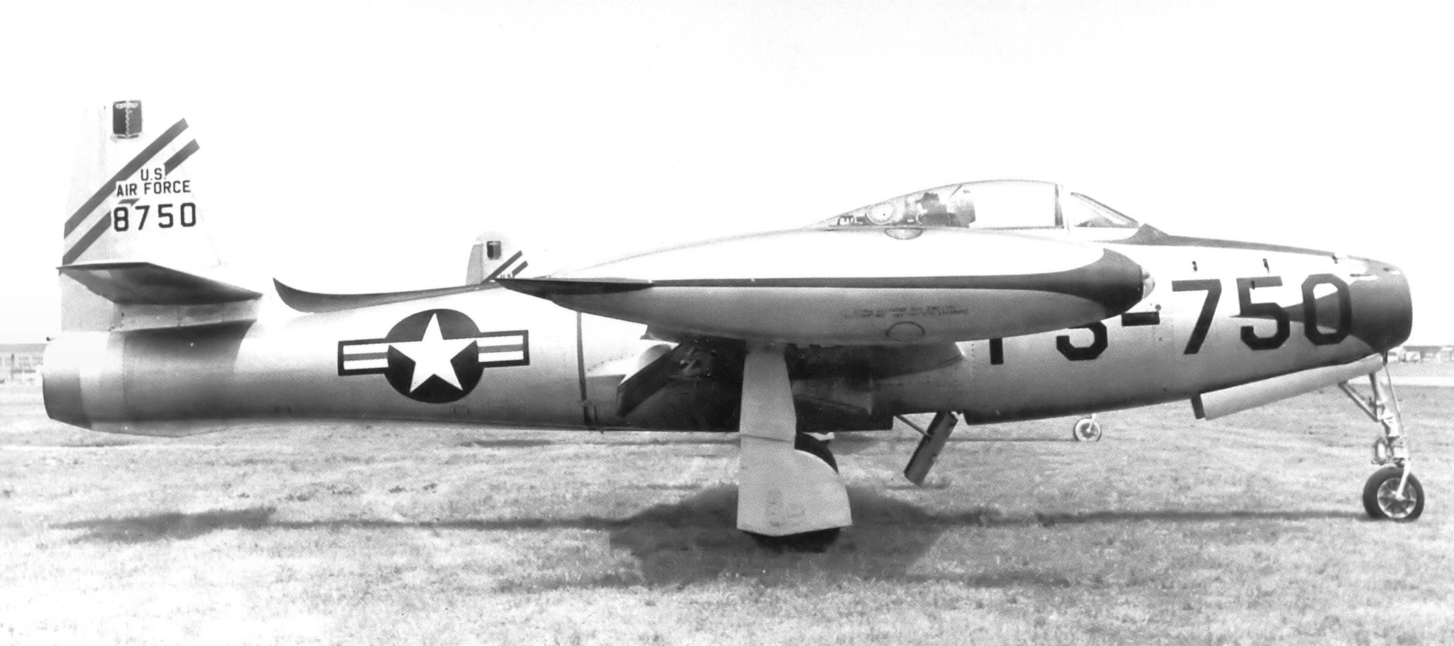 Republic F-84D-10-RE Thunderjet 48-750 assigned to the 78th Fighter Group, Hamilton AFB, California, about 1950